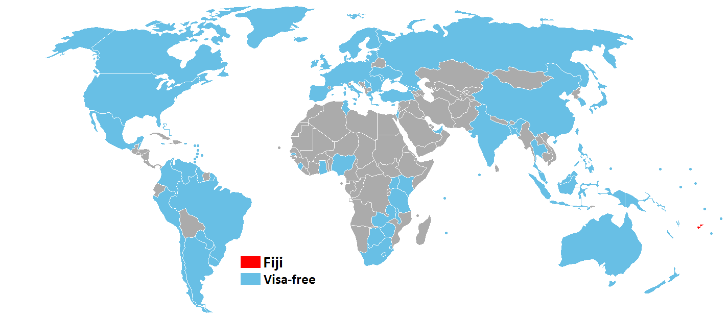 Visa policy of Fiji Fiji Visa-free